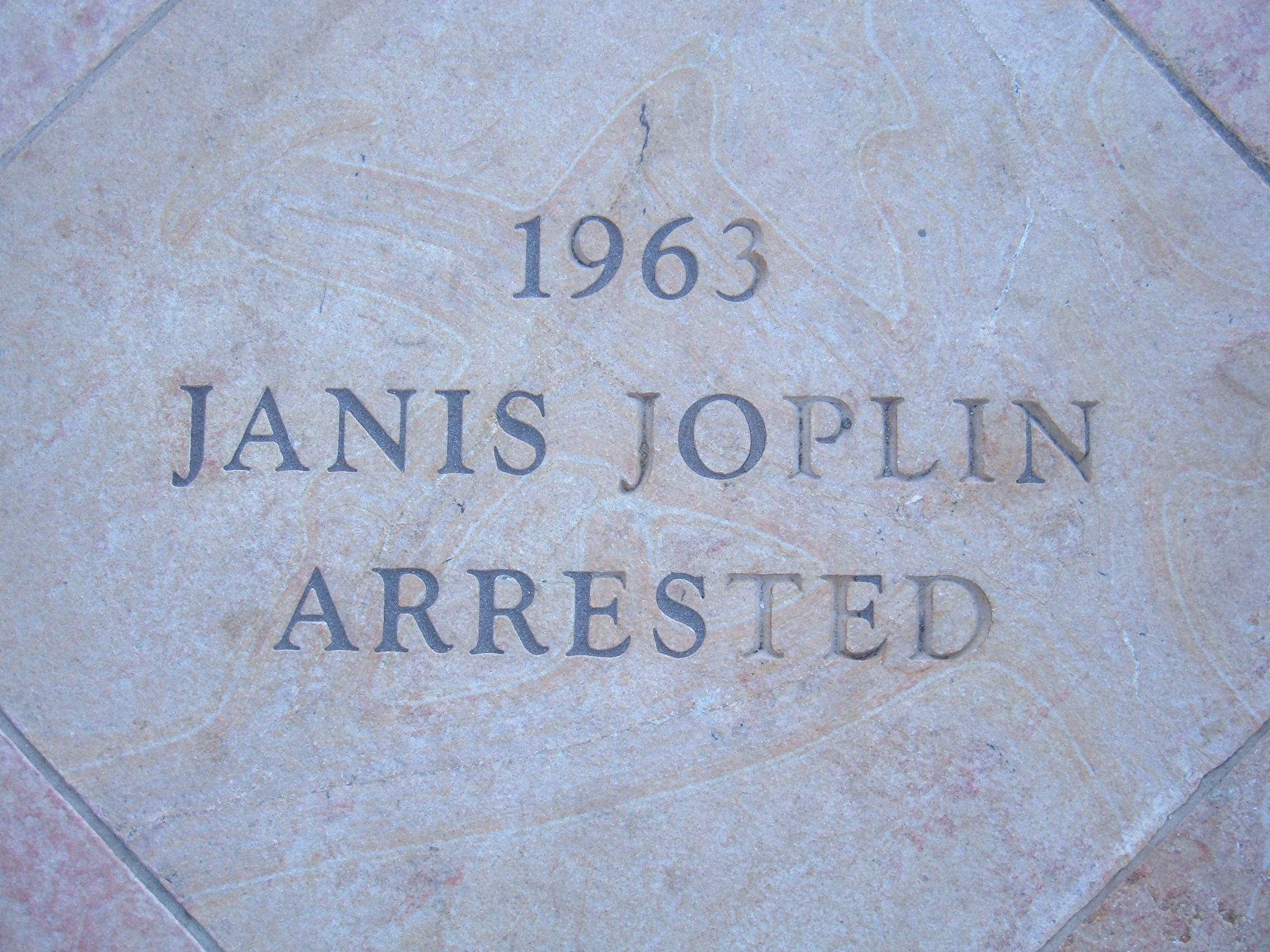 A tile commemorating the arrest of Janis Joplin in 1963 in Berkeley, California. Part of a series of tiles at the corner of Shattuck Avenue and Addison Street commemorating notable events in Berkeley history. companion to File:In Berkeley tile.JPG